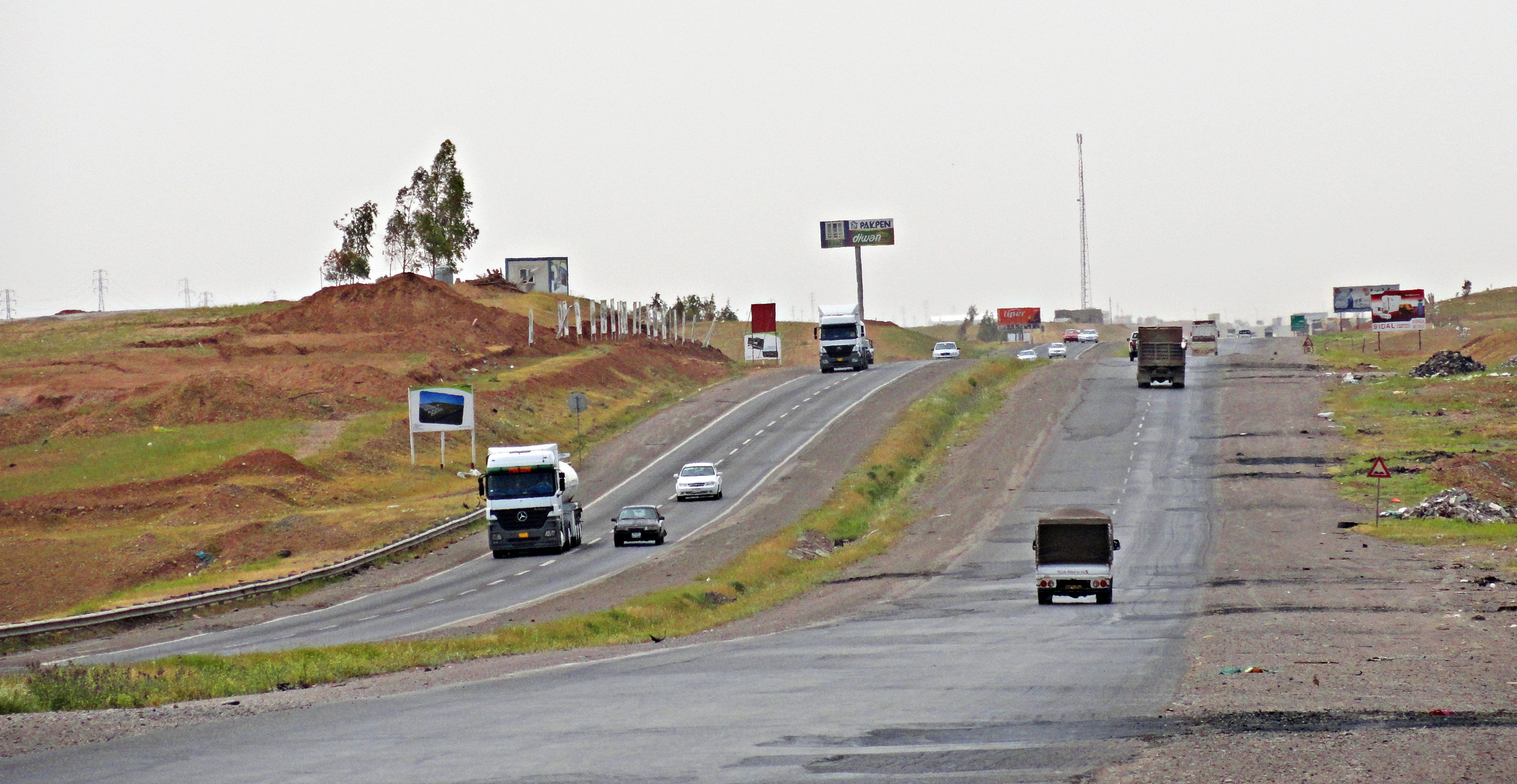 Iraq: Highway between Erbil and Mosul